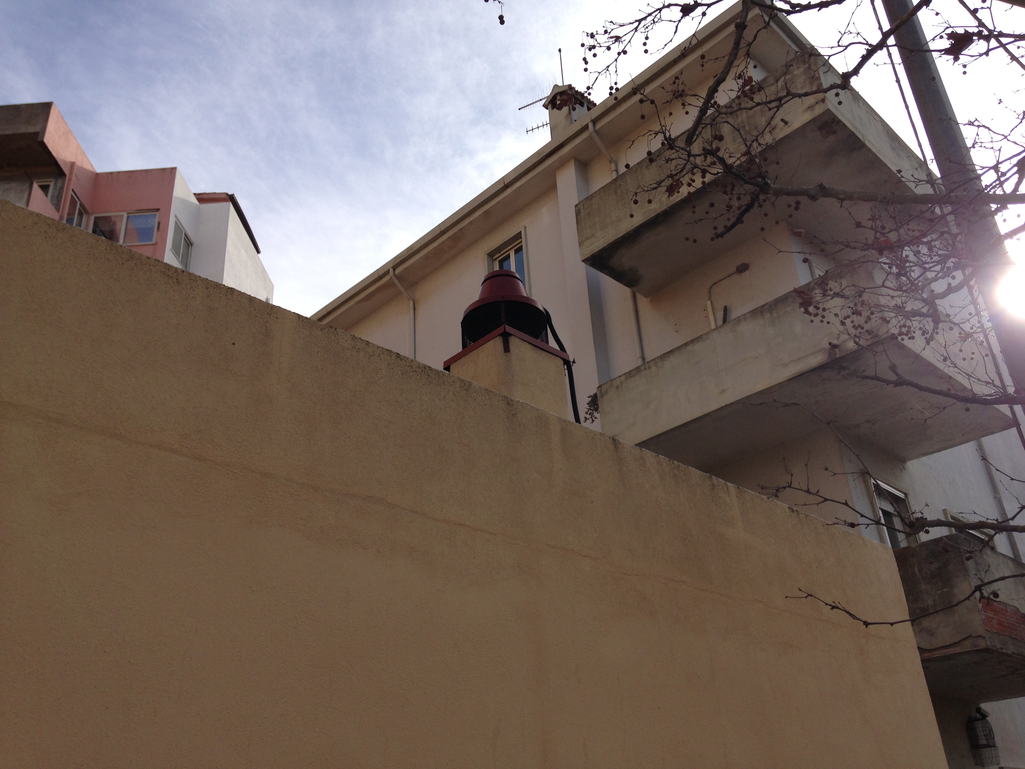 Chimney fan